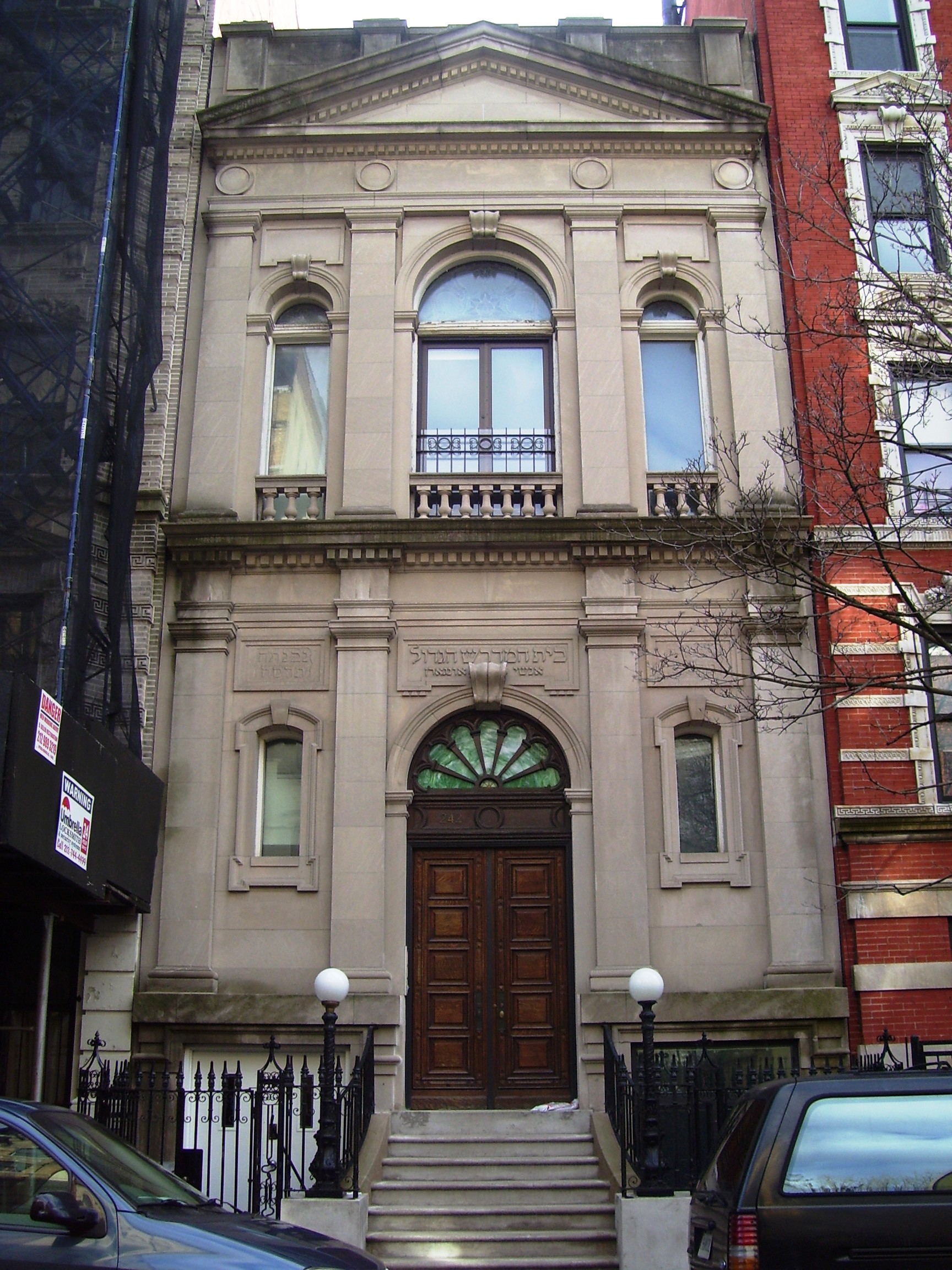 Congregation Beth Hamedrash Hagodol Anshe Ungarn (Great House of Study of the People of Hungary) at 242 East 7th Street between Avenues C and D in the Alphabet City area of the East Village neighborhood of Manhattan, New York City, was built in the Neoclassical style in 1905 as a shtiblech, or tiny synagogue which uses the space where there would otherwise be a tenement building. The congregation was founded in 1883. The building was converted to residential use in 1985. (Sources: From Abyssinian to Zion (2004) and AIA Guide to NYC (4th ed.))